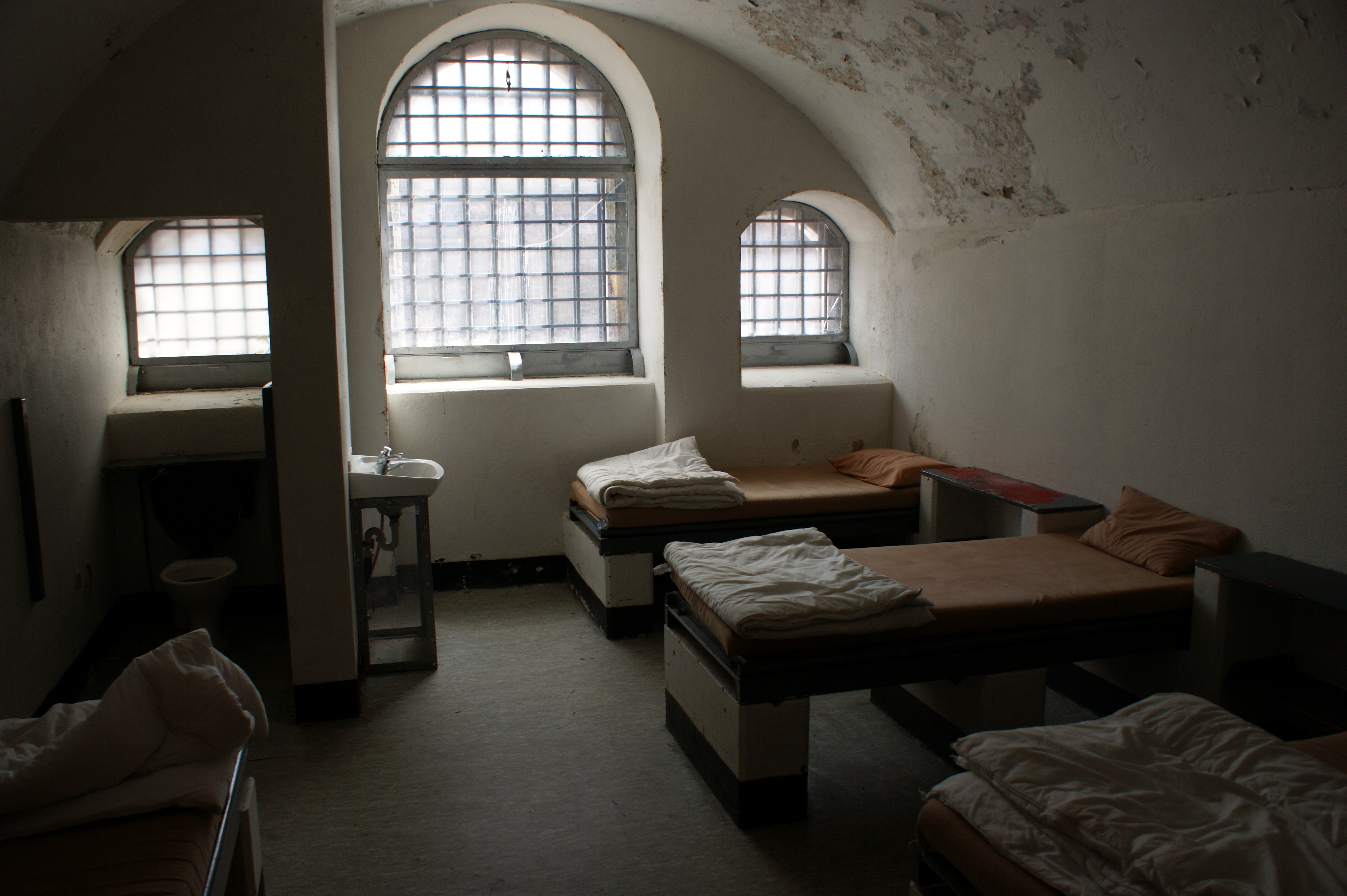 prison cell